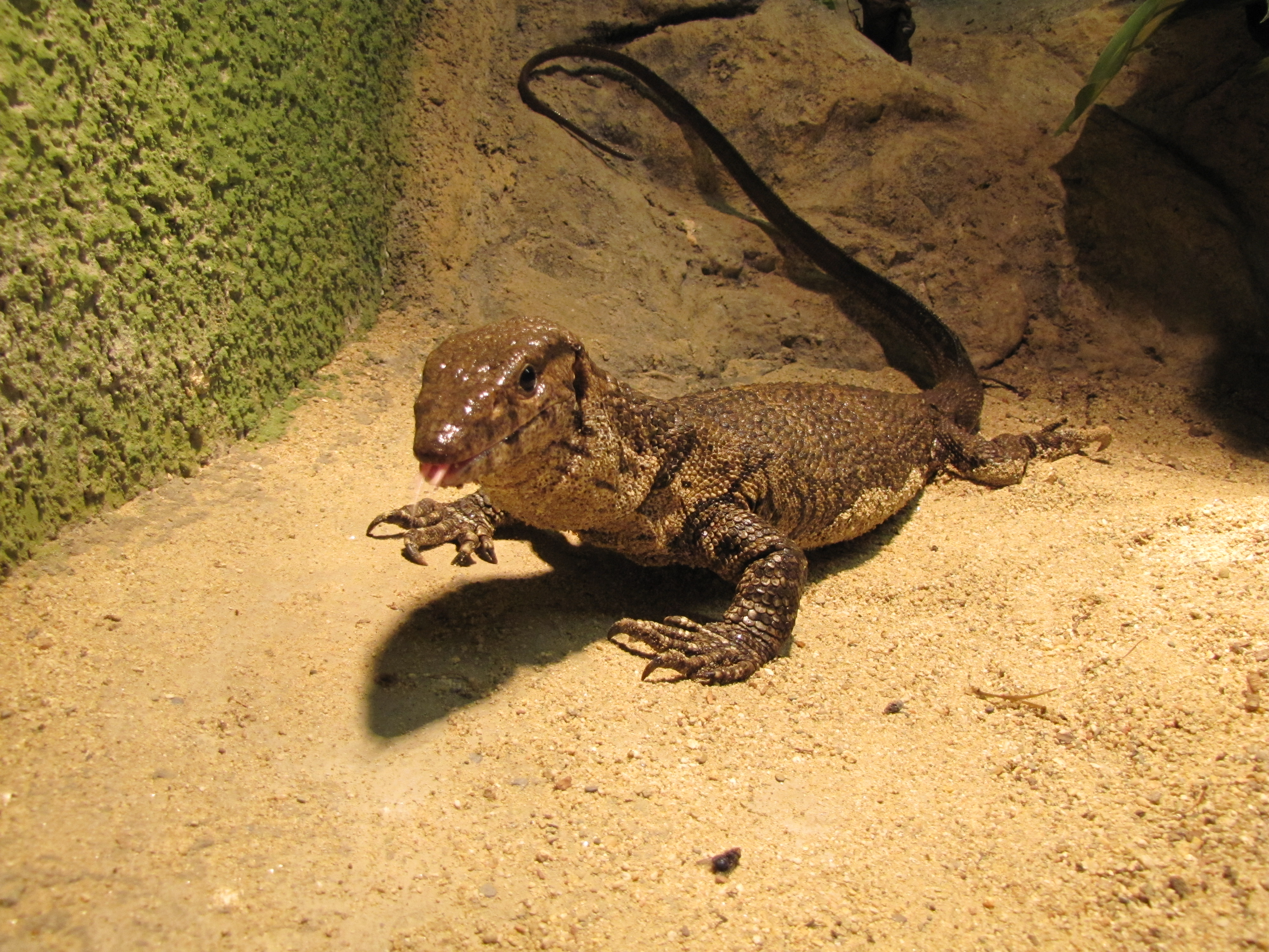 Varanus dumerilii, exhibited in Sofia Zoo